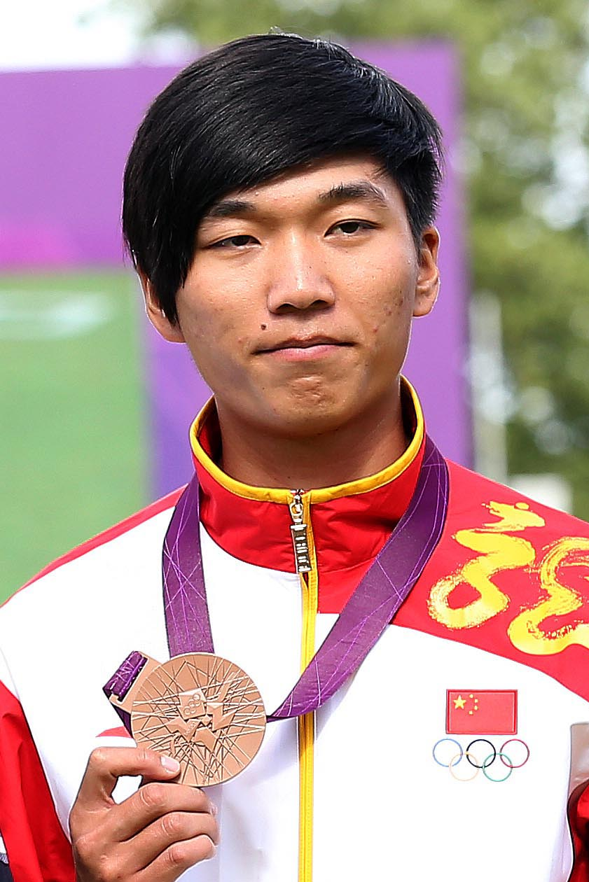 Dai Xiaoxiang, bronze medalist from China